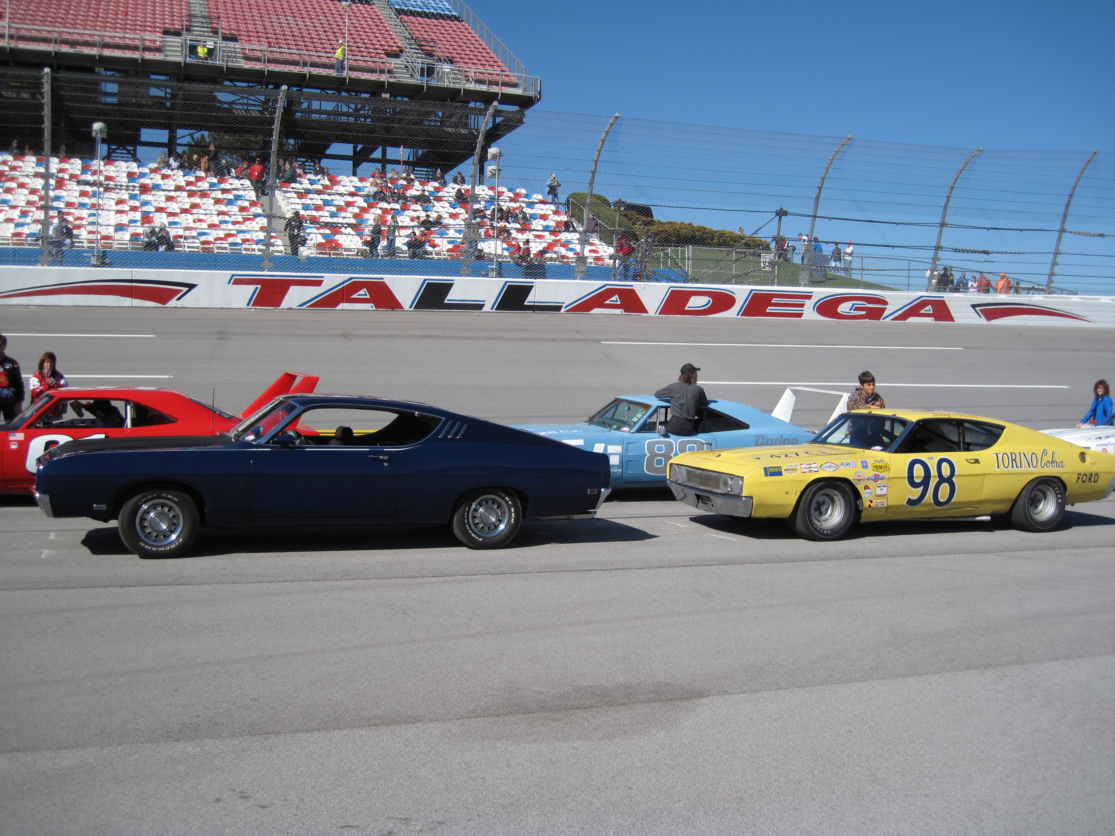 Talladegas at Talladega in 2009